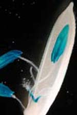 GUS reporter system. Rice anthers and style showing GUSPlus expression